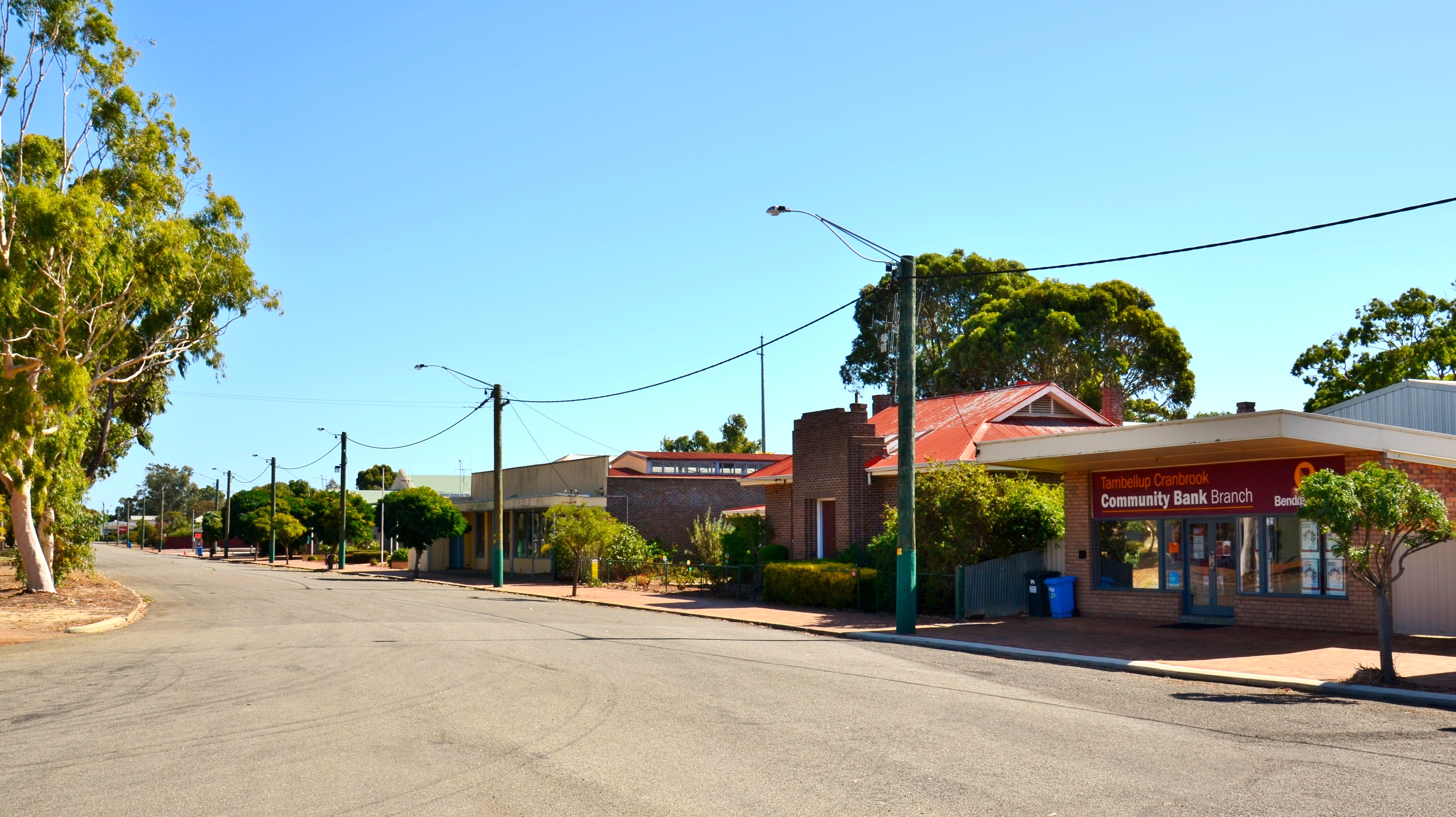 View of Gathorne Street, the main street of Cranbrook, Western Australia